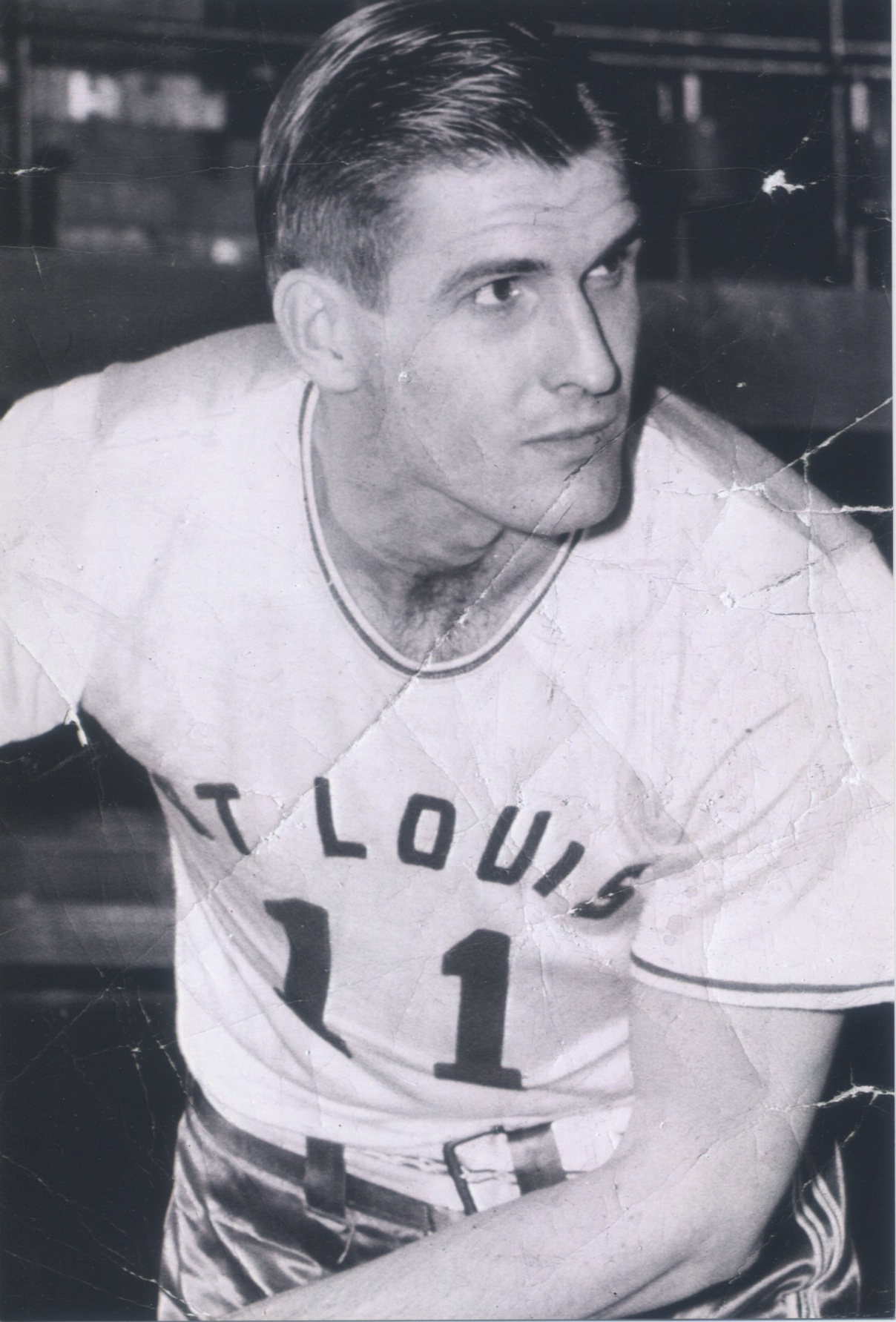 Picture of Ariel "Ace" Leishman Maughan, professional basketball player. BAA photograph, St. Louis Bombers, 1948-1950.